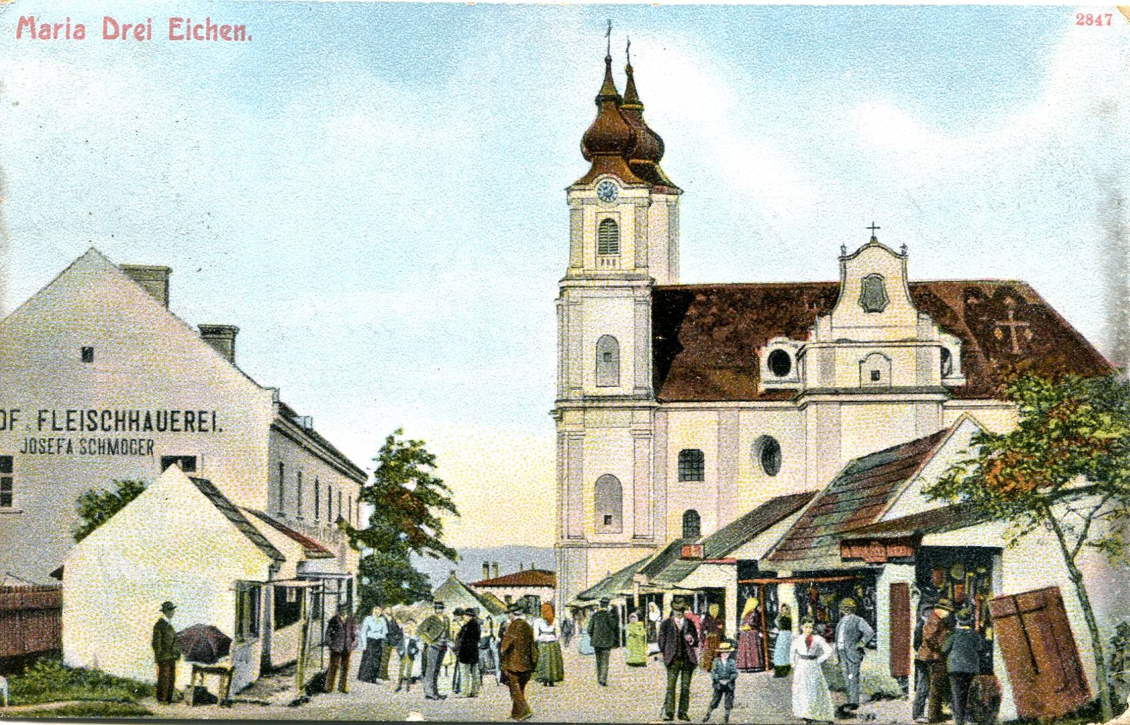 Maria Dreieichen, Austria, ca. 1900